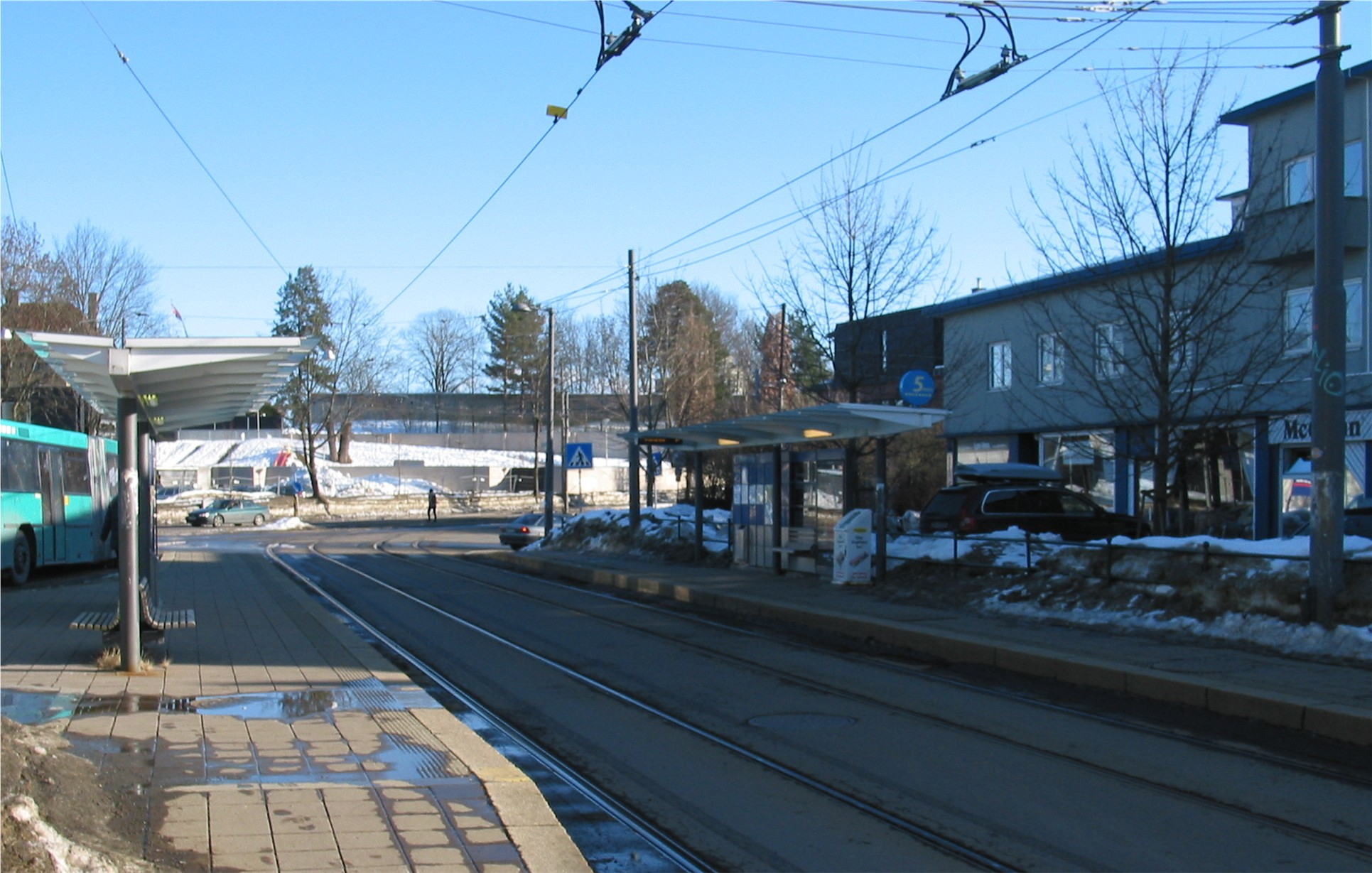 The tramway station John Collets plass, looking eastwards.